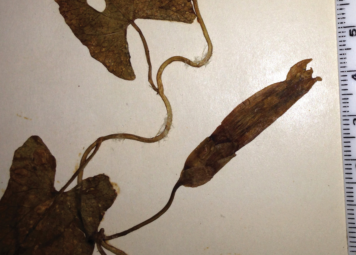 Lectotype of Convolvulus binghamiae Greene, Santa Barbara, July, 1886, R.F. Bingham s.n. (UC335392), with one small bract, and a broad-based corolla.